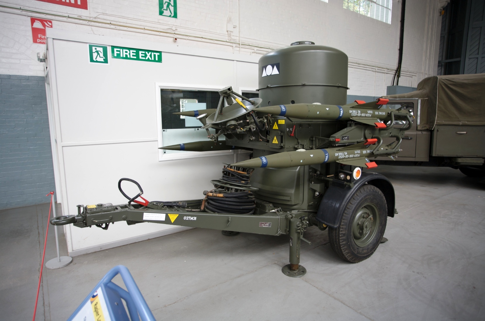 A British Rapier SAM missile system.